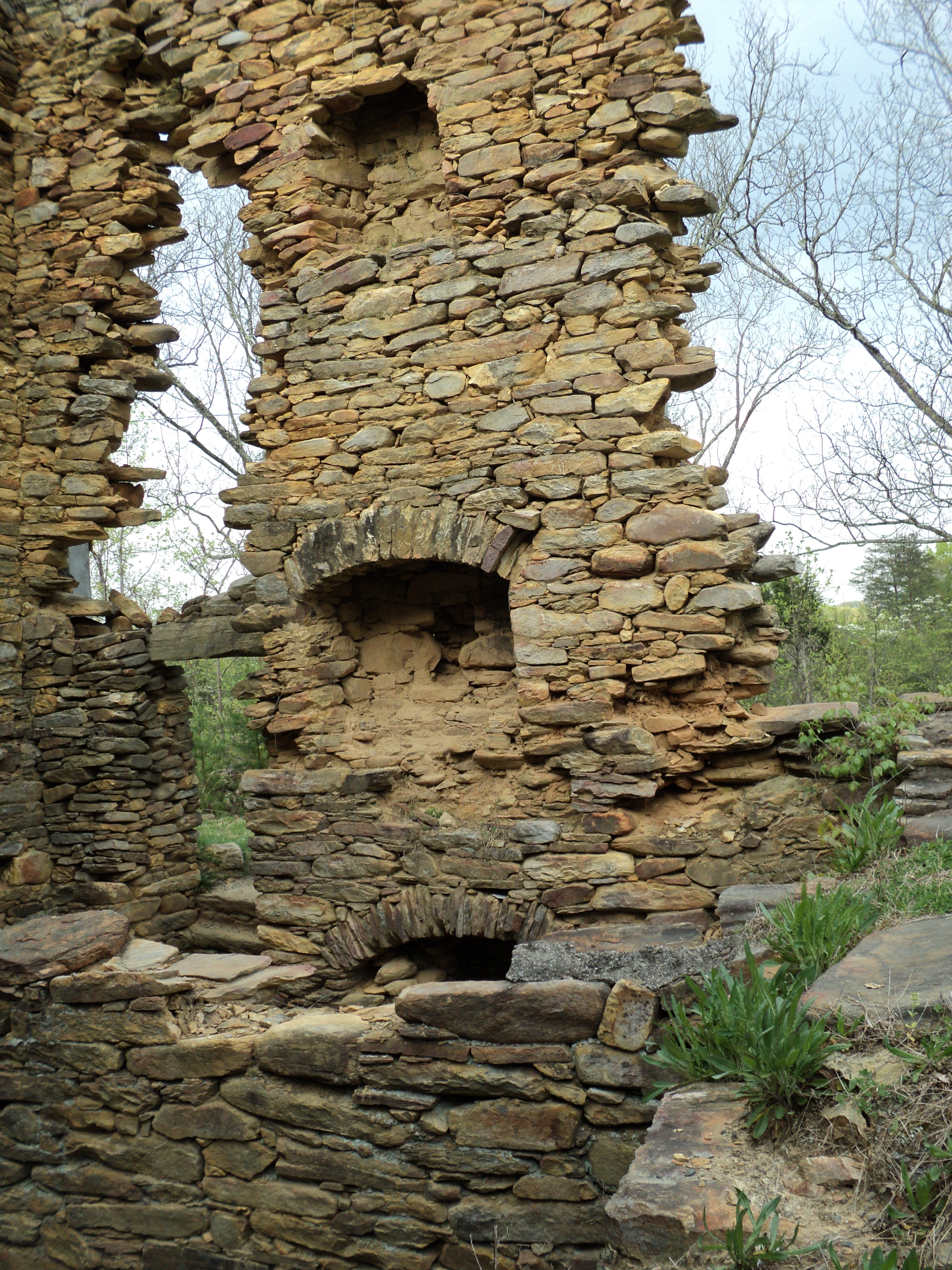 Photograph of the Rock House, Stokes County, North Carolina, built by Capt. Jack Martin, pioneer and American Revolutionary War soldier.